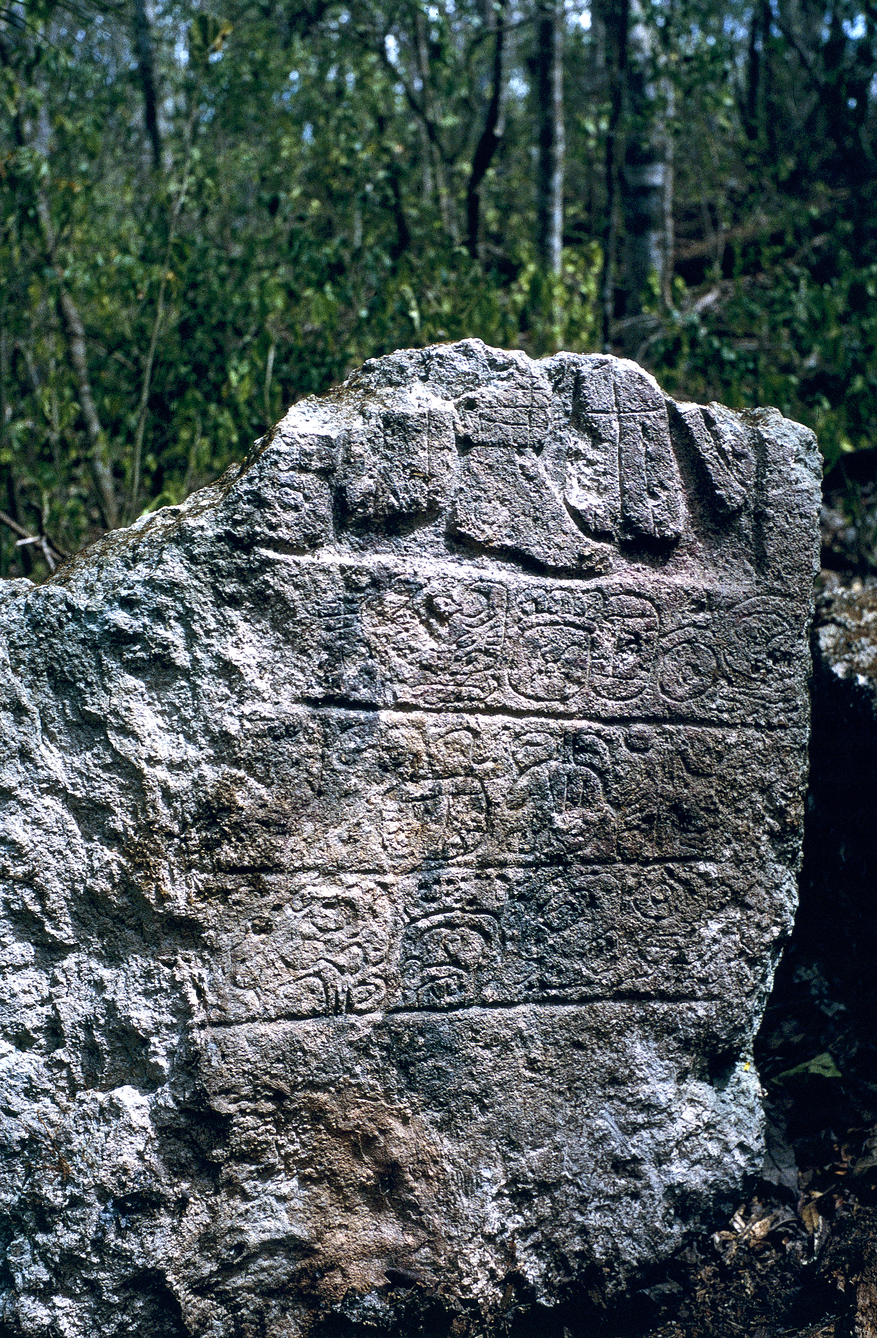 Sta. Rosa Xtampak, Campeche, Mexico: fragment of Stela 2